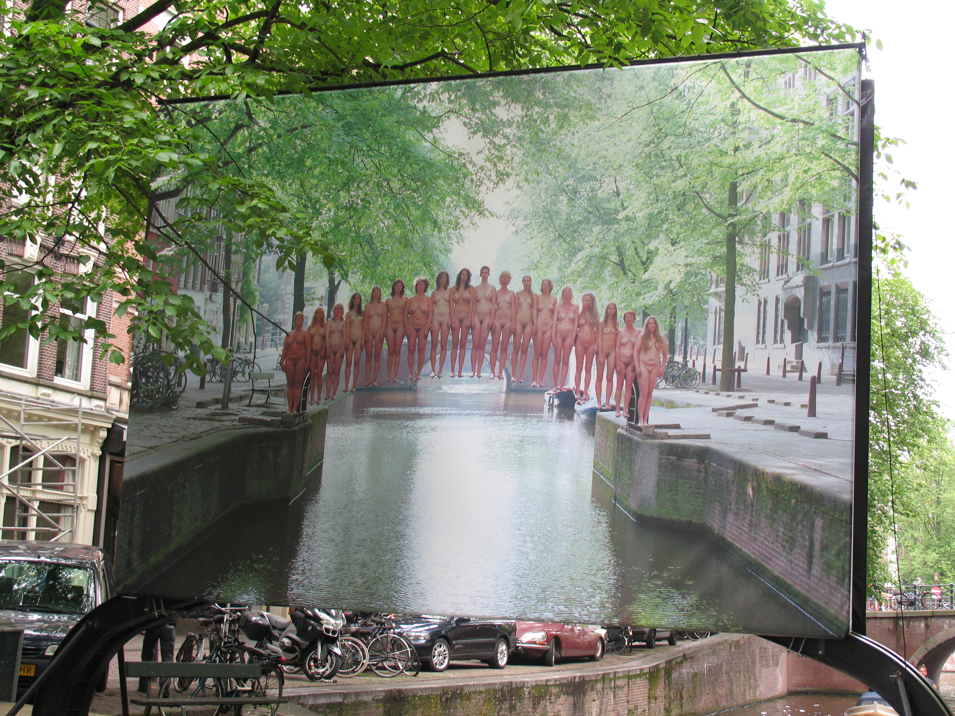 spencer tunik installation in amsterdam. Photographed on the June 3, 2007 @ Leliegracht amsterdam